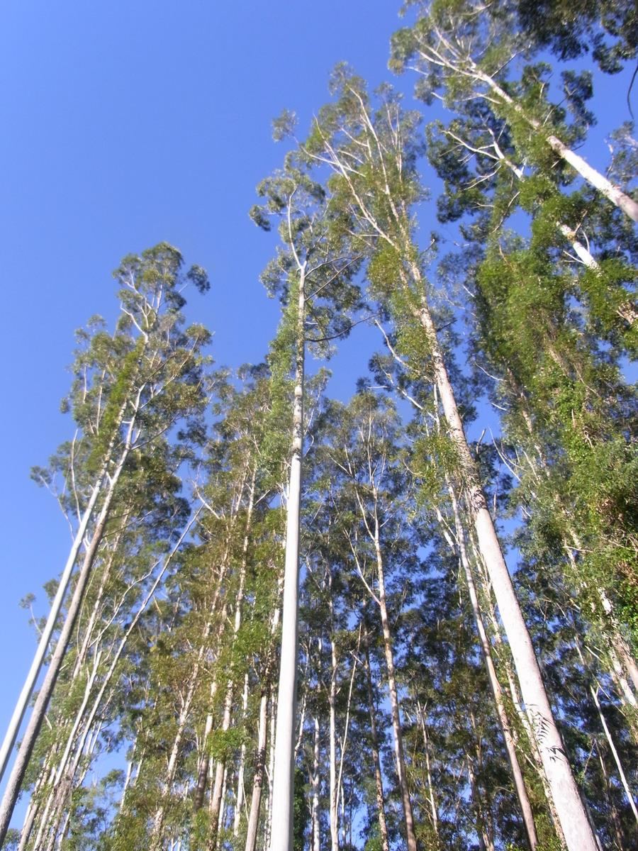 Eucalyptus grandis, Kerewong State Forest, NSW, Australia. 55 metres tall, photographed at the edge of a logging area. To one side was clear felled logging, the other side tall forest. Tree height measured with a Nikon forestry Laser Range finder 550.